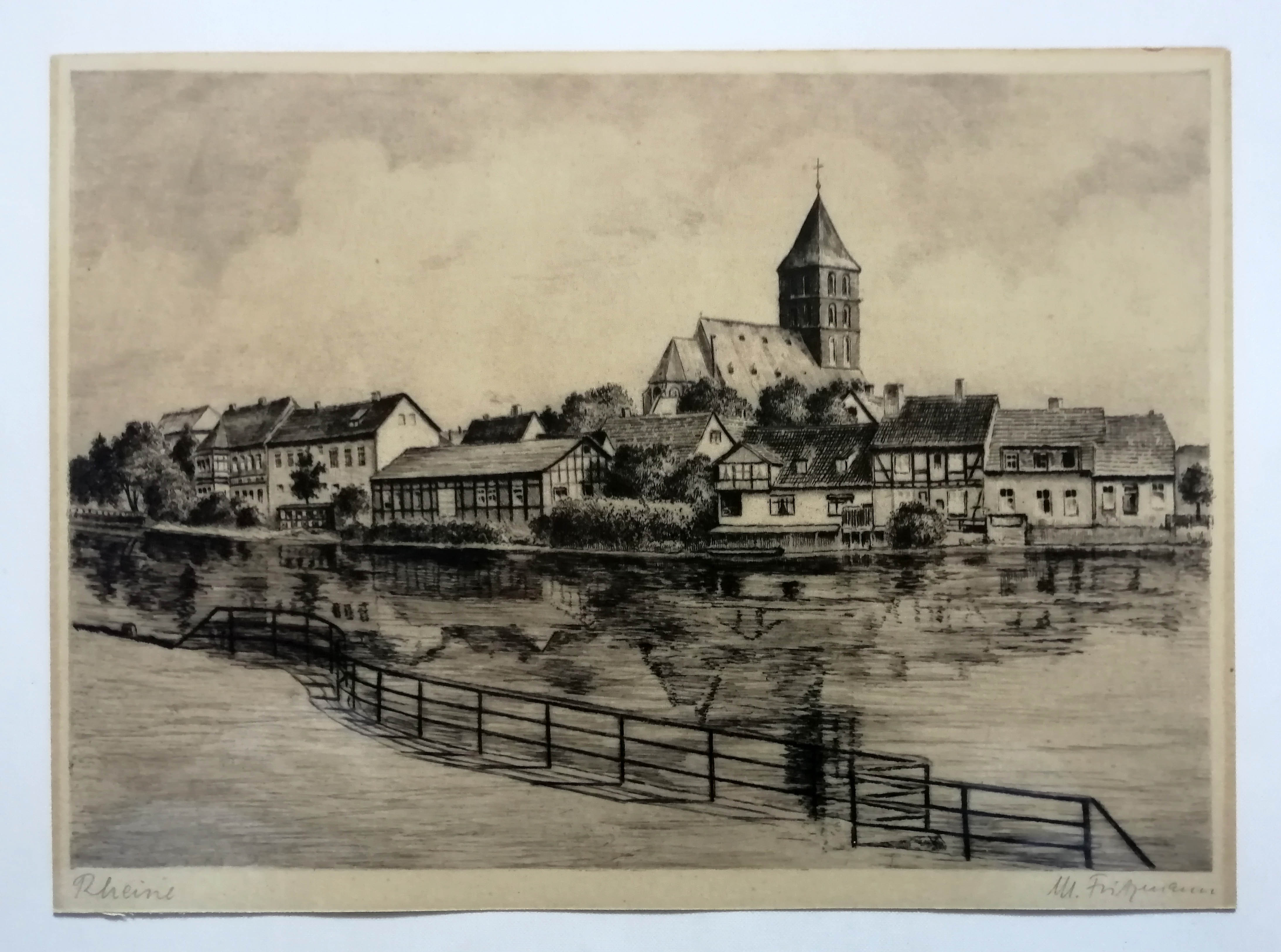 Rheine - Westliches Emsufer mit Dionysius-Kirche